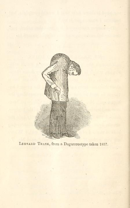 Cover of Leonard Trask - The wonderful invalid